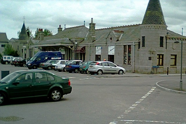 Aboyne railway station Original description: Former Aboyne Station Now a parade of shops in Station Square.